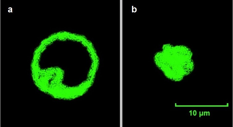 Fluorescent dextran